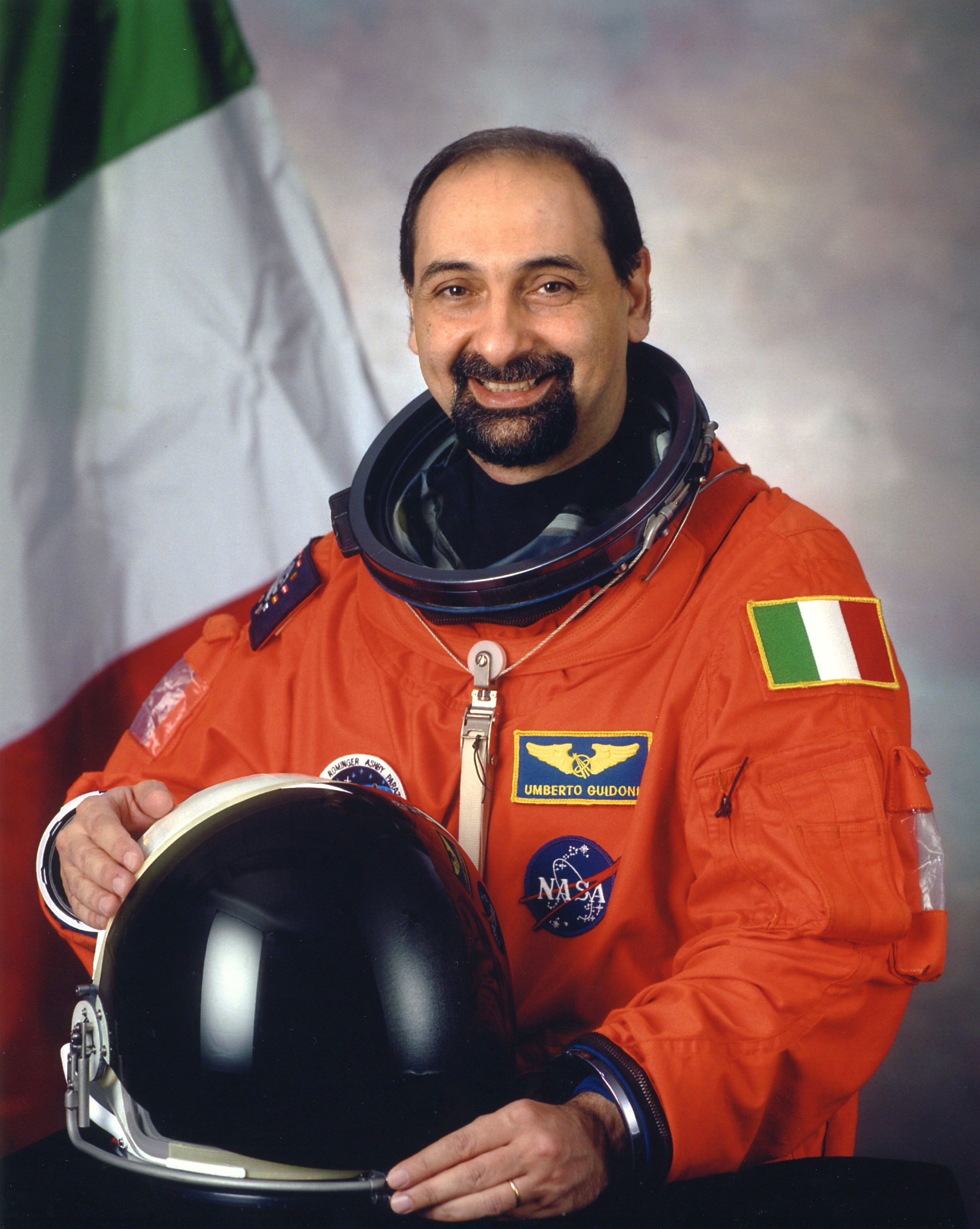 NASA portrait of Umberto Guidoni (2001)